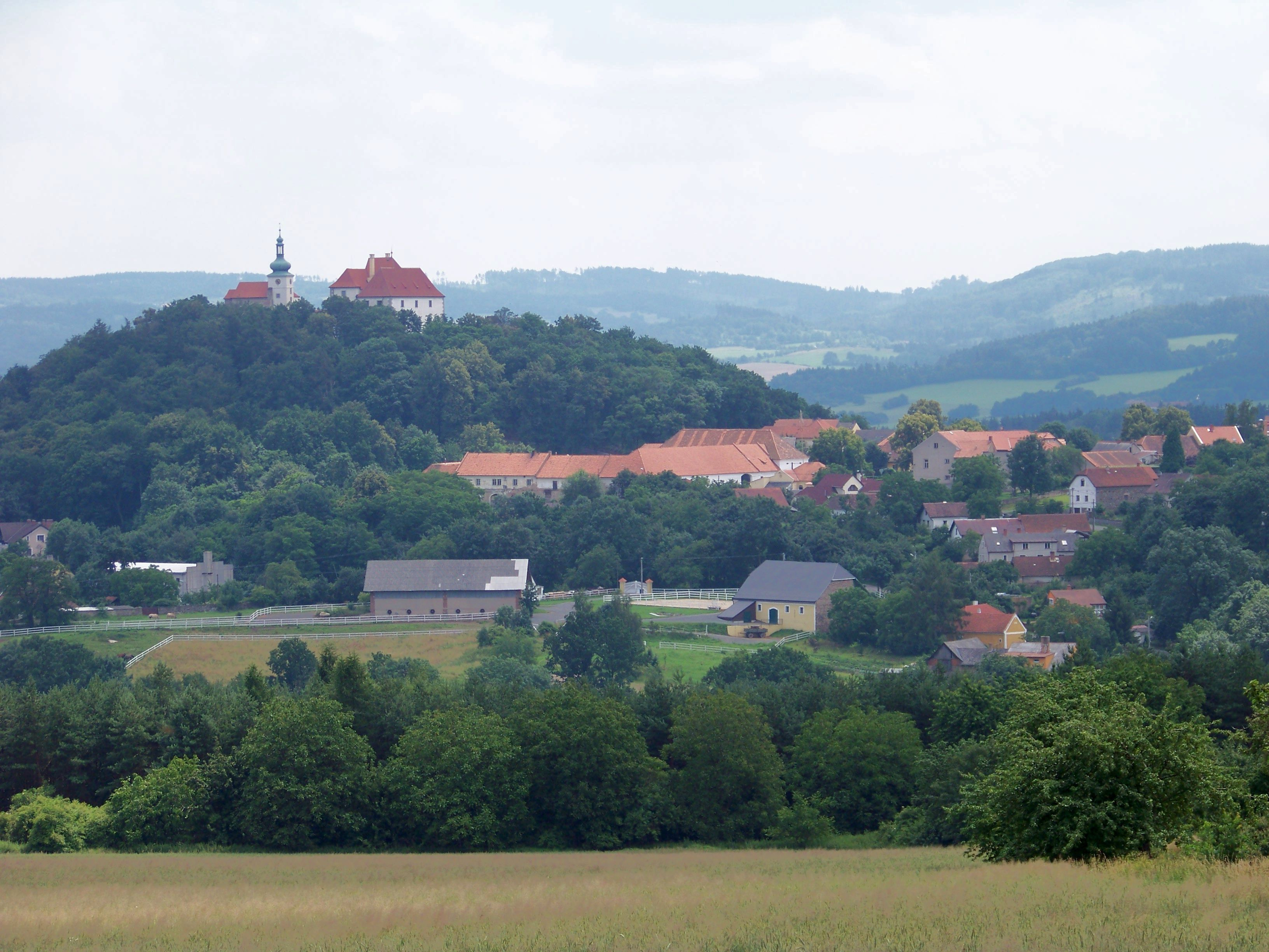 Vysoký Chlumec, Příbram District, Central Bohemian Region, the Czech Republic. A castle an a village from the north-west.